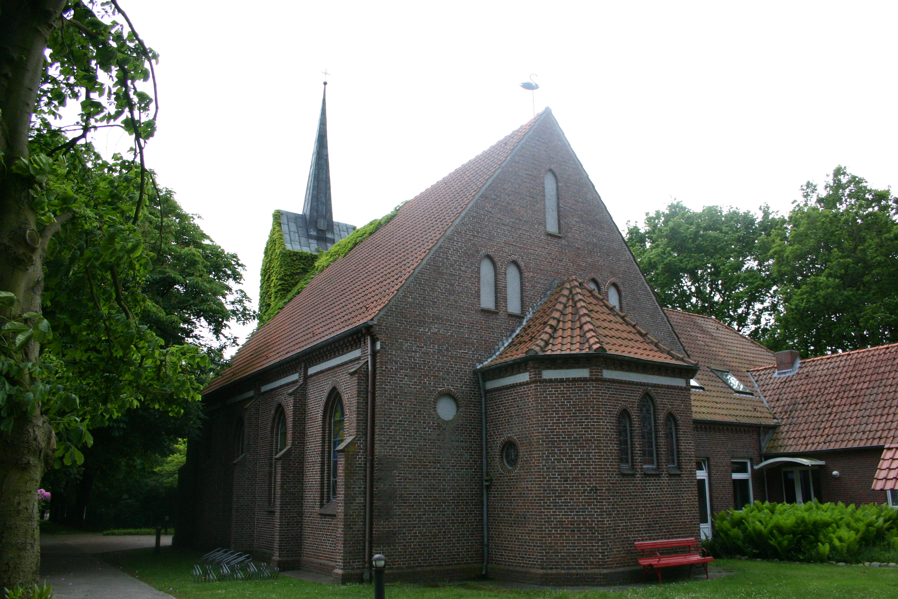 Historic Andrew Church in Plaggenburg, district of Aurich, East Frisia, Germany